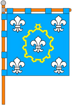 Flag of Brody (Lviv Oblast Ukraine)